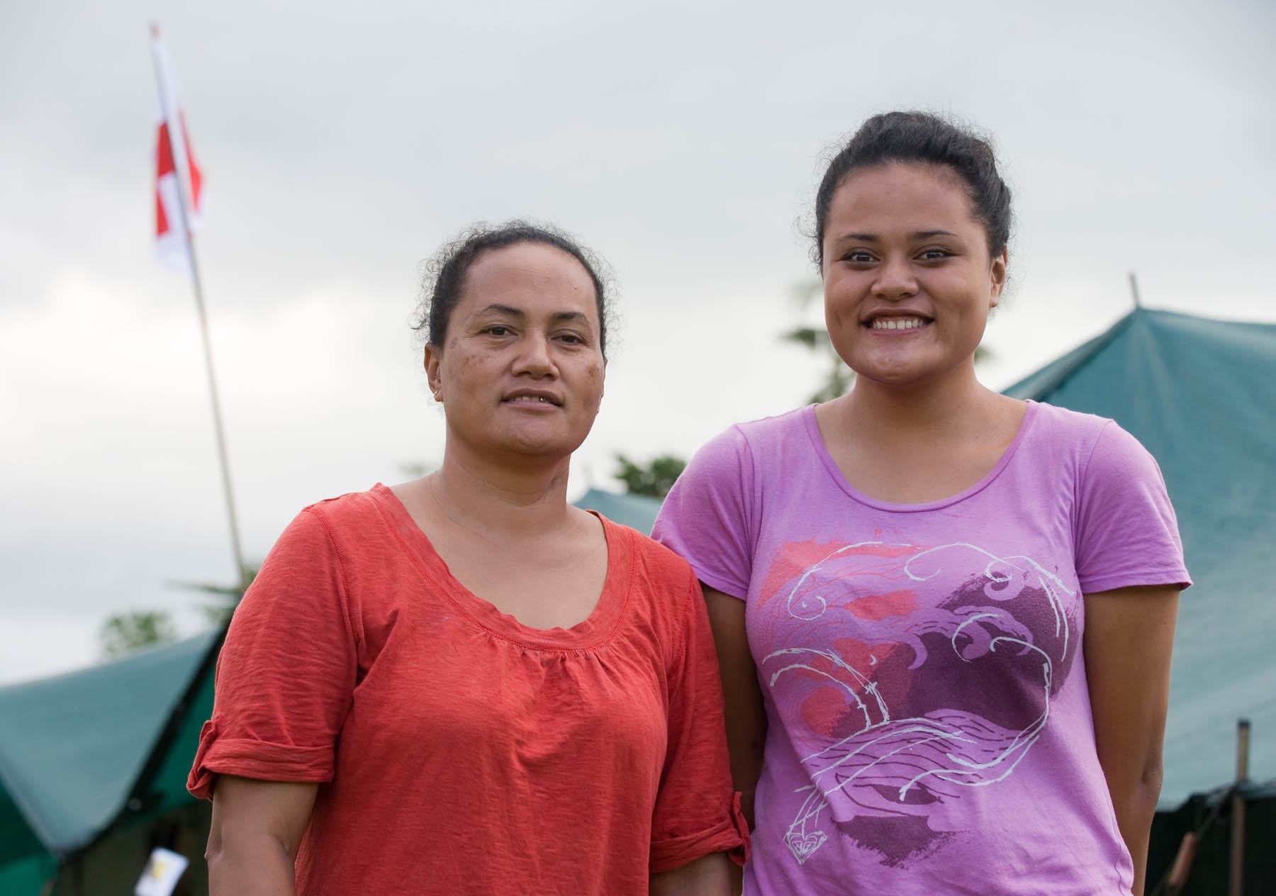 The New Zealand Army ferried patients living in remote villages to and from the tent hospital. At least three patients spent a day and a half travelling by boat from Atafu, Tokelau’s northernmost atoll located about 600 kms from Samoa. They included 18-year-old university student Leleiga Kirifi, who had a lump on her breast removed. “We’ve come a long way but like any mother, I worry and I will cross oceans if that is what it takes to ensure my daughter’s good health,” teacher Hatesa Kirifi said.